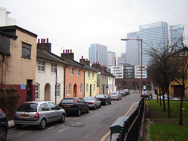 St Lawrence Cottages, Blackwall, Tower Hamlets, London. 4 February 2006. Photographer: Fin Fahey.